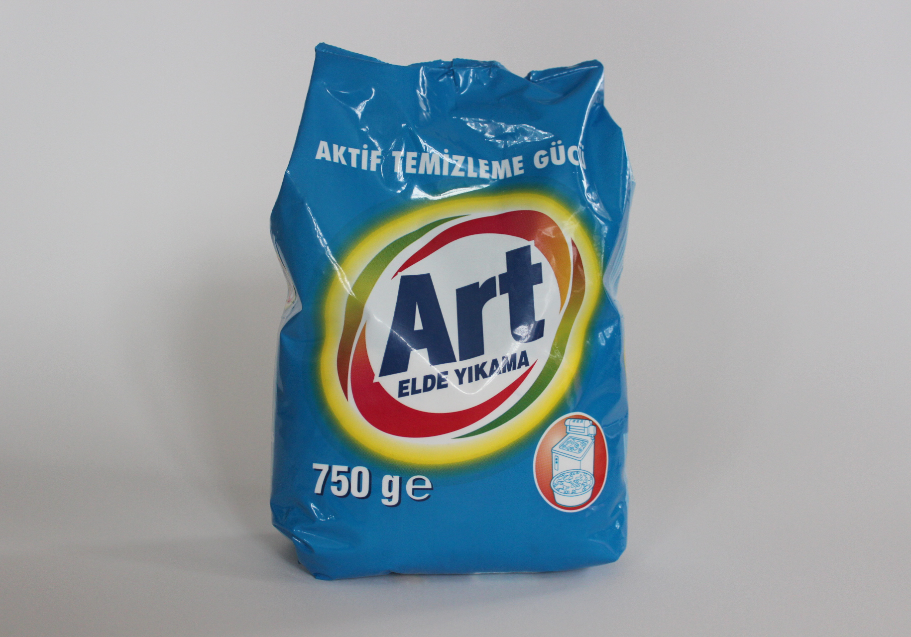 Art (blue) is a ready-made sculpture by Genco Gulan.